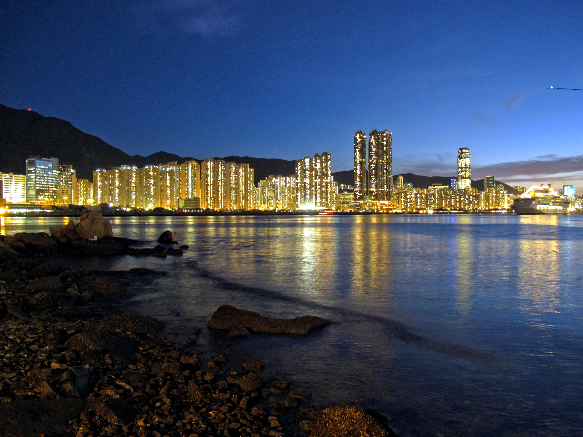 Island East Night View